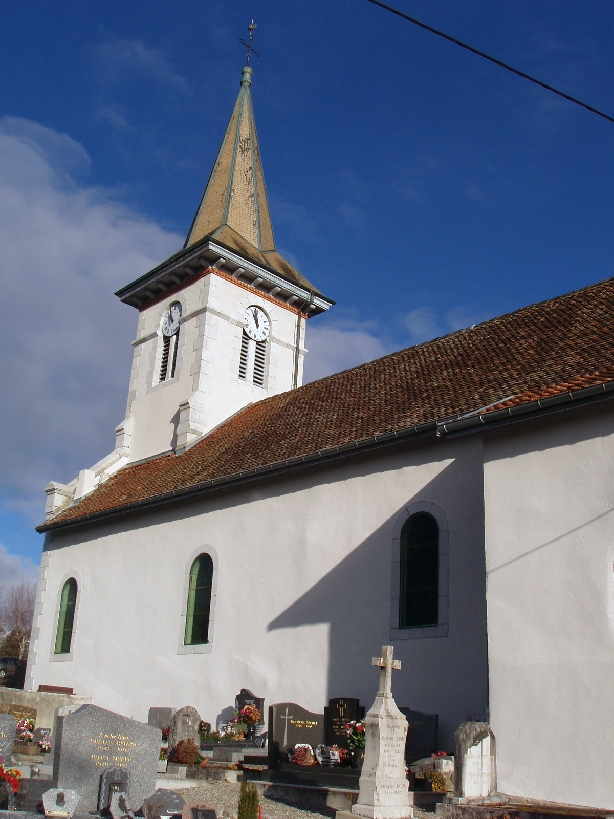 Challex (Ain, France) church